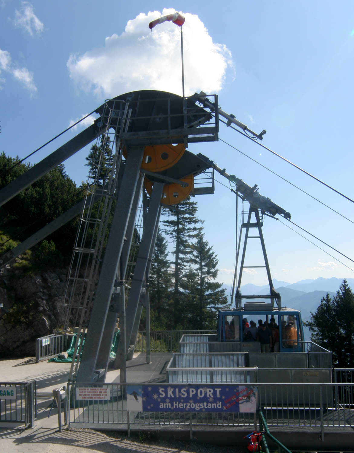 Ropeway at Herzogstand (Bavaria)